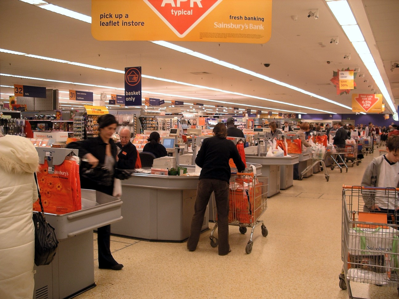 Supermarket check out, London January 2005 Author: Velela. Location: Sainsbury's supermarket, East Dulwich, London Source: Personal photograph taken by Author December 24 en:2003 Technical data: Pentax Optio 555 digital camera. 1/30s @ f2.8